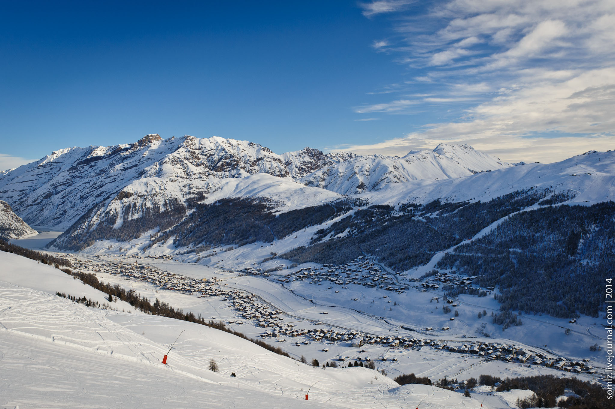 Livigno - is a town and comune in the province of Sondrio, in the region of Lombardy, Italy, located in the Italian Alps, near the Swiss border. dec. 2013 - jan. 2014